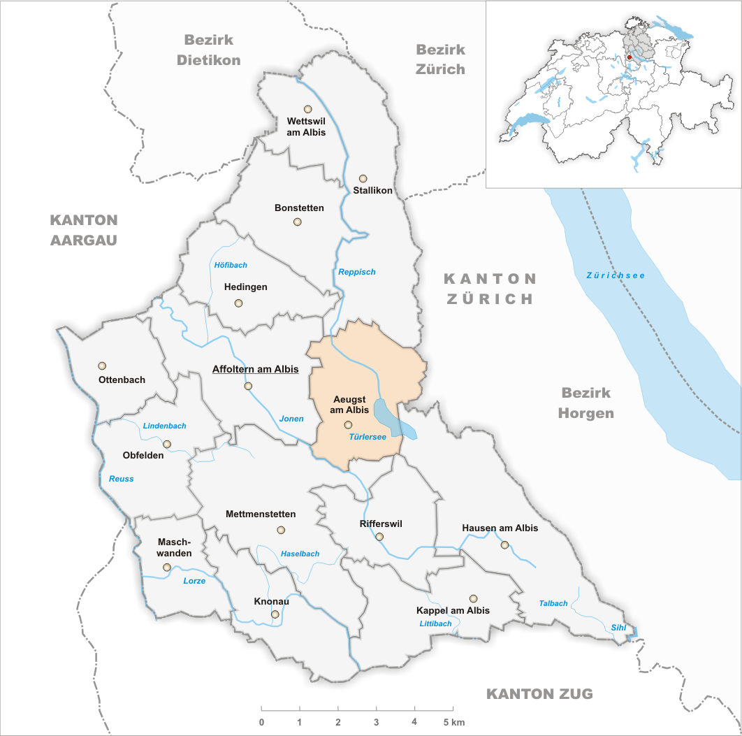 Municipality Aeugst am Albis